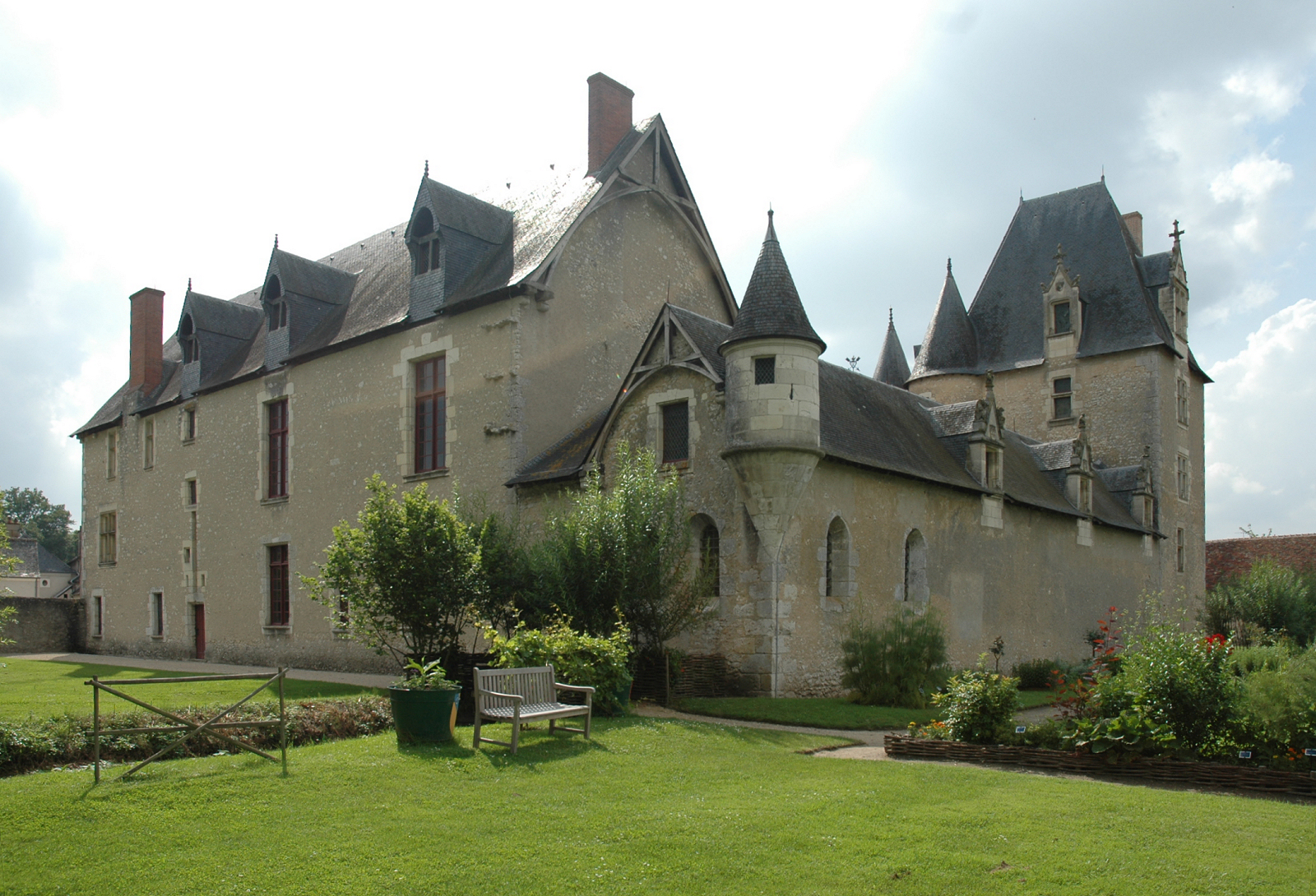 Château de Fougères-sur-Bièvre, eastern aspect